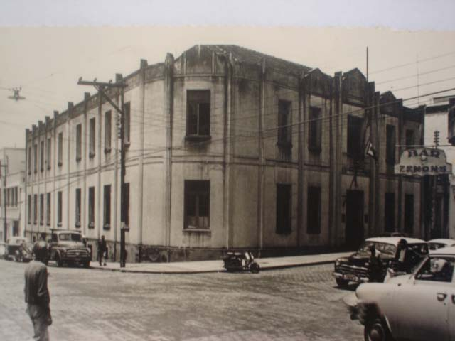 Created in 2002 decree of Jan 1918 as the 15th Circuit Recruitment, replacing the Board of Review and Giveaway Military Curitiba, 1908. On 02 Jul 1919, by Decree No. 13,674, was changed the name to the 5th Circuit Recruitment. That same year, by decree No. 13916 of 11 Dec, the designation was changed again to the 8th Circuit Recruitment. In 1923 it was renamed 9th Circuit Recruitment. On 21 Jun 40, changed its name to the 15th district of Recruitment, by Decree No. 2330. On 18 Apr 66 by Dec No. 58,210, was named to the 15th district of Military Service. Comprised of 20 Police Stations of Military Service, covering 399 cities with 401 joints Military Service installed. It is considered the official date of 02 Jan 1908 as date of creation.